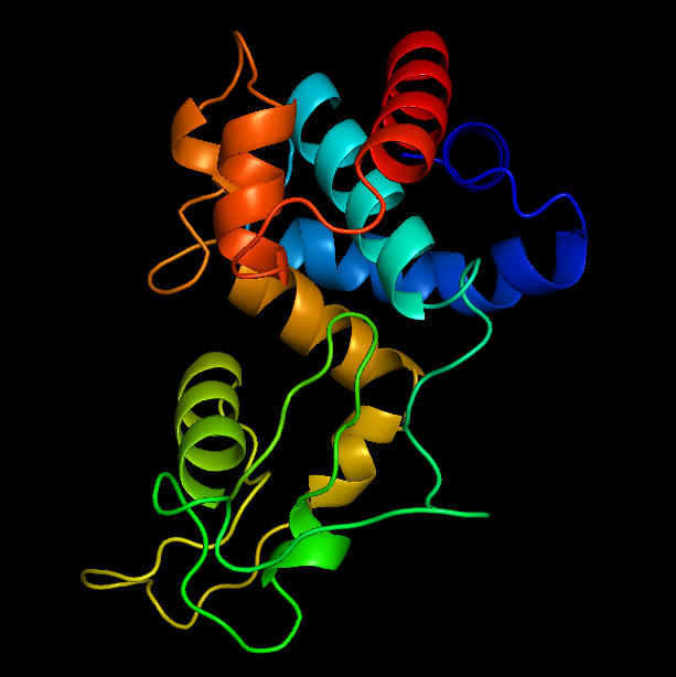 Based upon the structure of bacteriophage spn1s endolysin (PDB: 4OK7​) from salmonella typhimurium due to structural similarities.